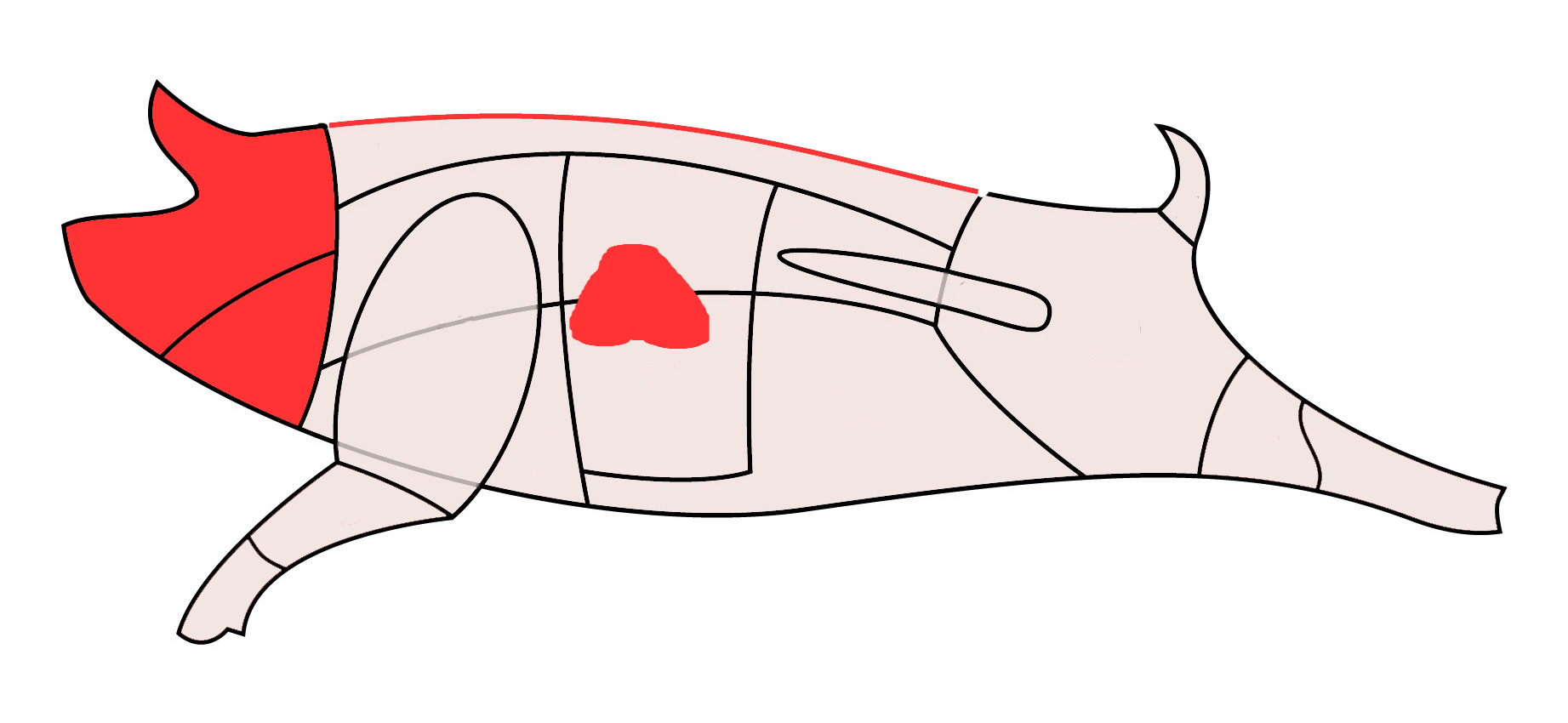 Parts pig from which produces pork sausage.